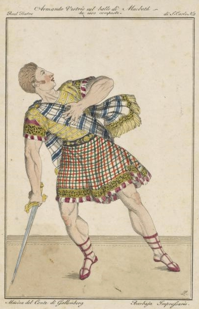 French choreographer and ballet dancer Armand Vestris as Macbeth at the Teatro San Carlo in Naples. Choreographer: Armand Vestris (1795-1825). Composer: Wenzel Robert von Gallenberg (1783-1839). Impresario: Domenico Barbaja (1778-1841).